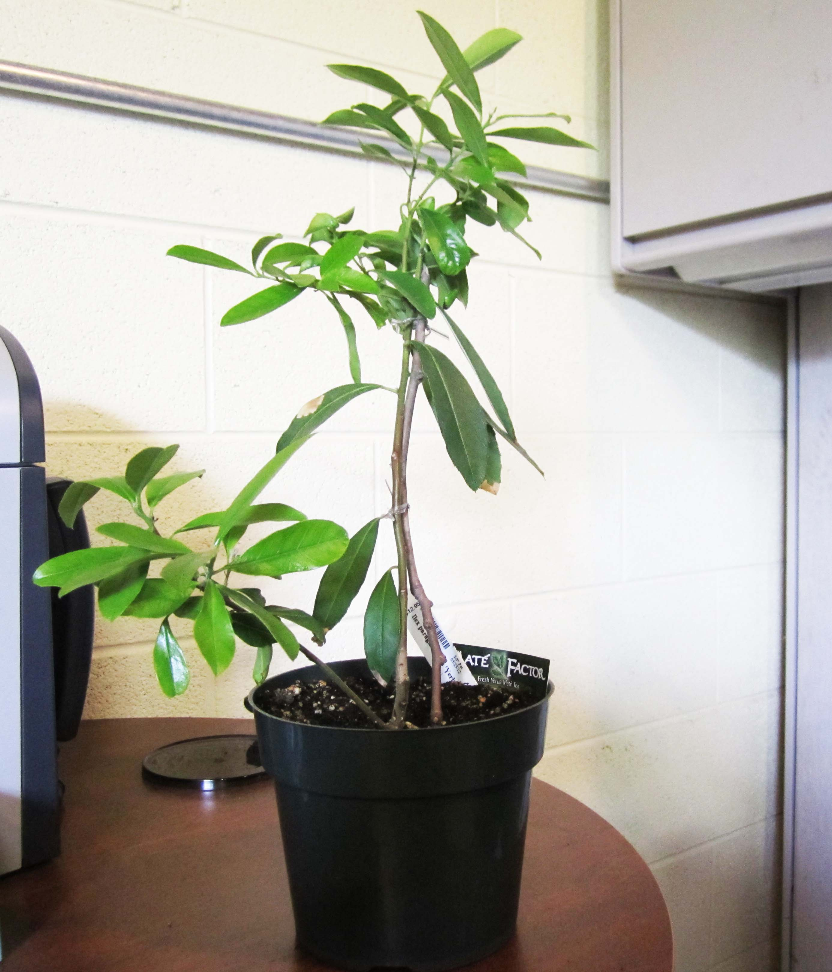 An example of a young plant of species Ilex Paraguariensis or Yerba Mate